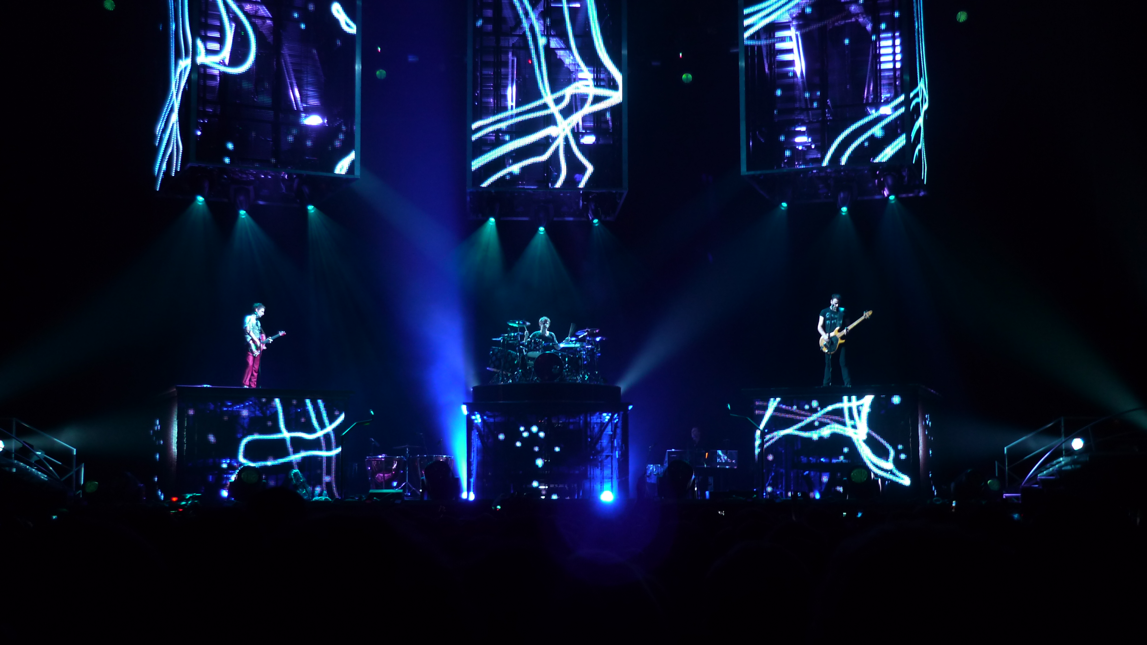 MUSE playing during The Resistance Tour in Toulouse FRANCE.